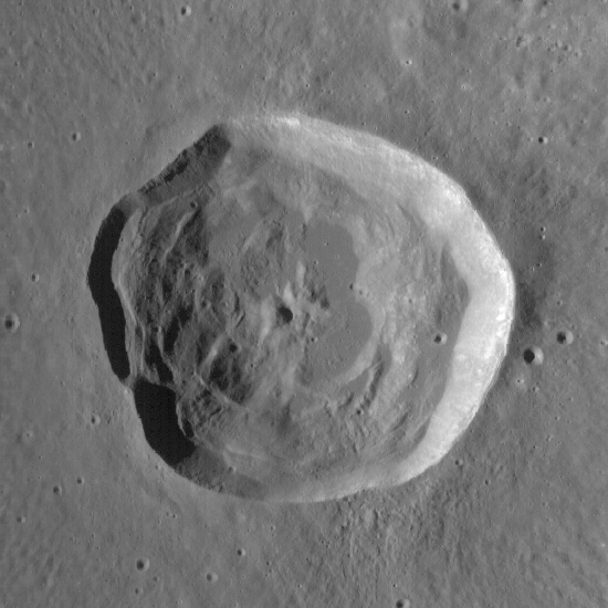 Lunar craters Triesnecker (diameter is 25 km). Photo by Lunar Reconnaissance Orbiter, made with Wide Angle Camera 20 July 2011 from altitude 42.5 km on wavelength 566 nm. Sun elevation is 22.67°. Part of the image M165821768CE with increased brightness. Resolution is 58.93 m/pixel, width of the photo is 32.4 km.